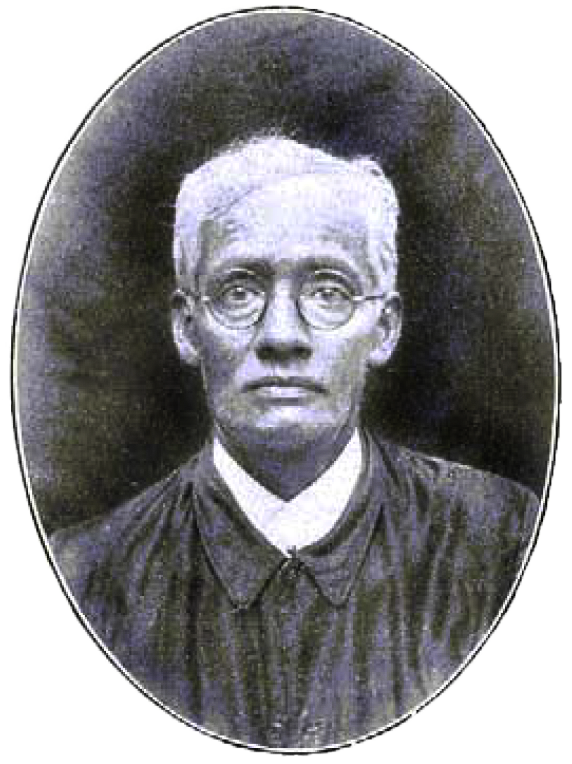 Gopala Chandra Praharaja.